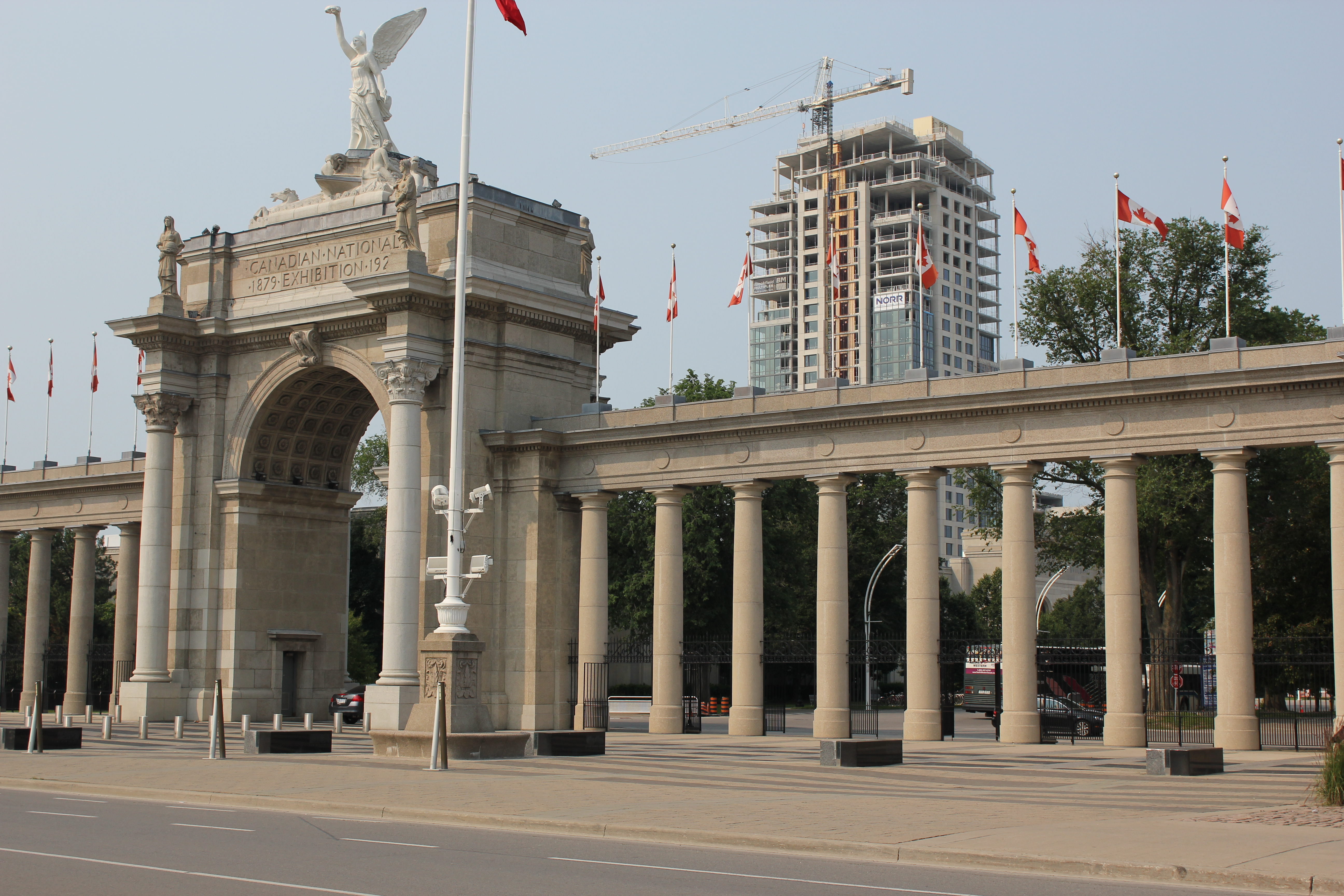 Princes' Gates - Toronto Exhibition Place during the 2015 Pan Am Games